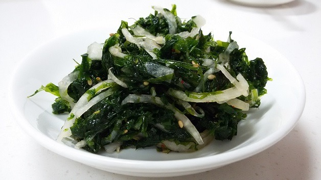 paraemuchim (seasoned parae) (Monostroma nitidum)